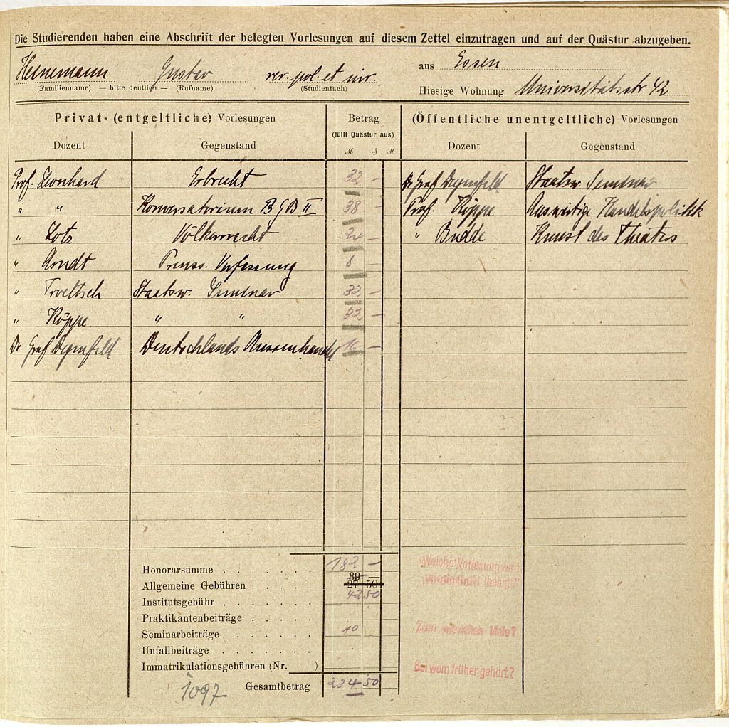 paper-sheet of Gustav Heinemann, Philipps-University Marburg 1921